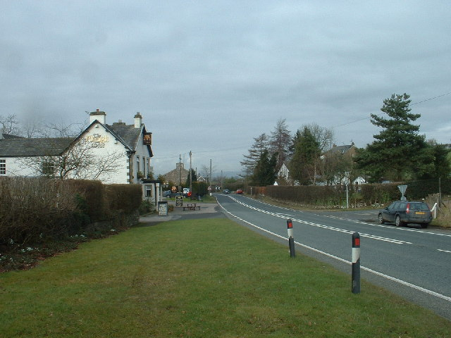 Lupton Village. Looking west, on the A65.